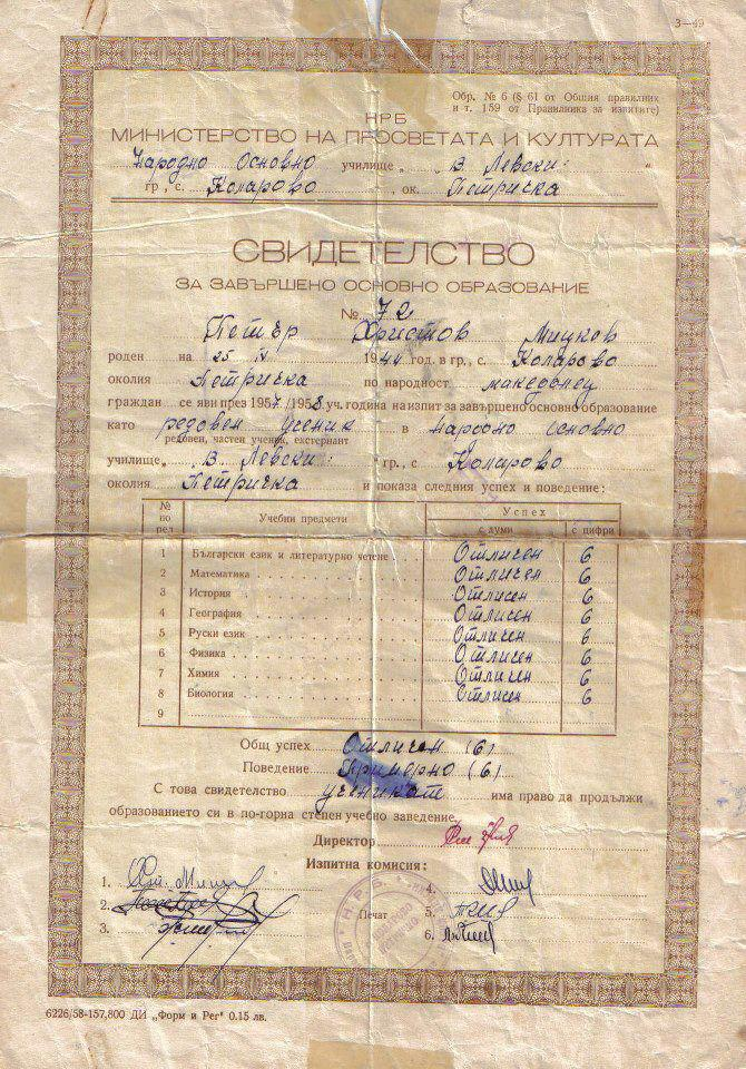 Diplom from Ministry of Education of Bulgaria to Petar Mitzkov